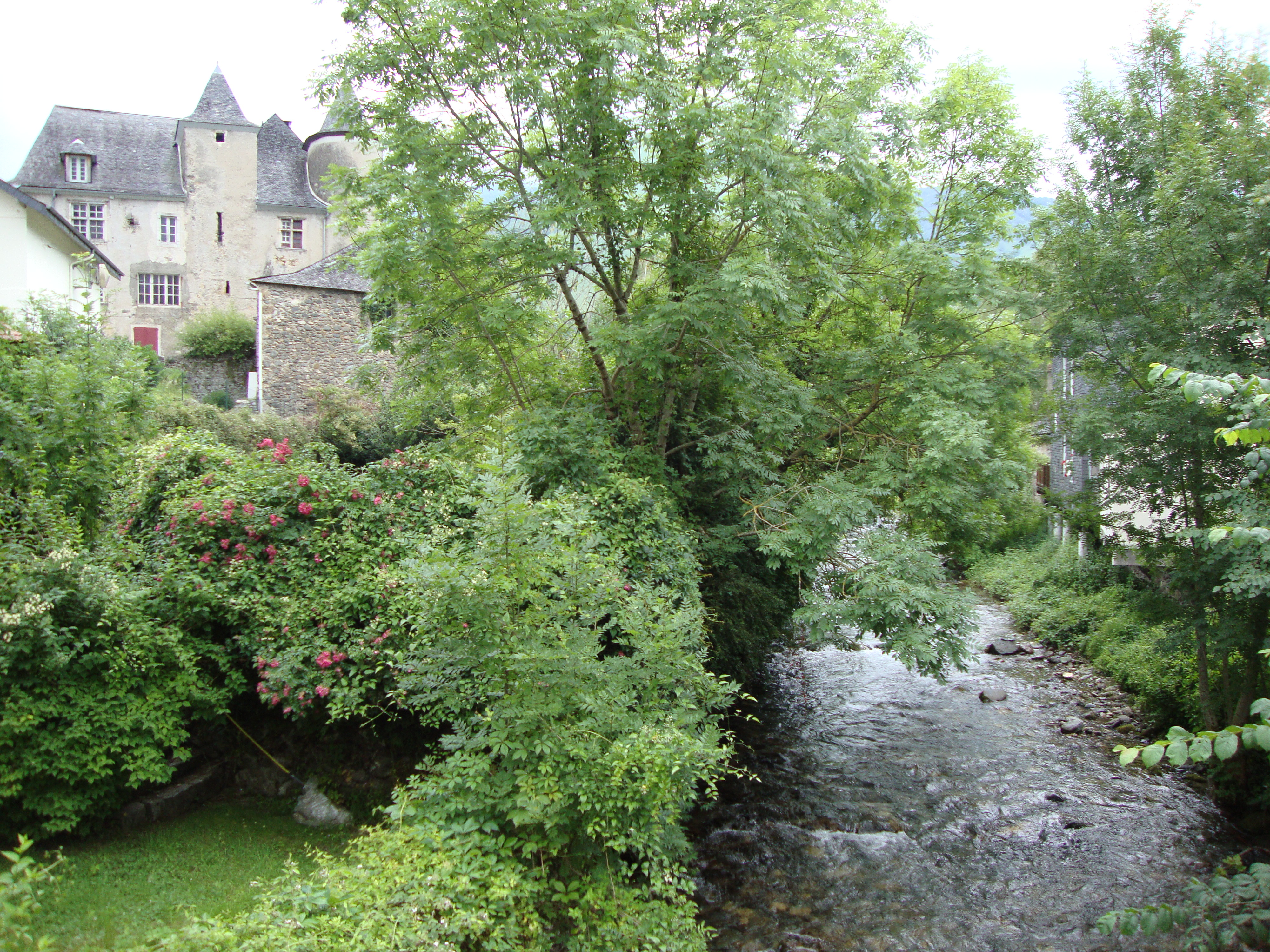 Bedous (Pyr-Atl, Fr) Gave d'Aydius and Castle